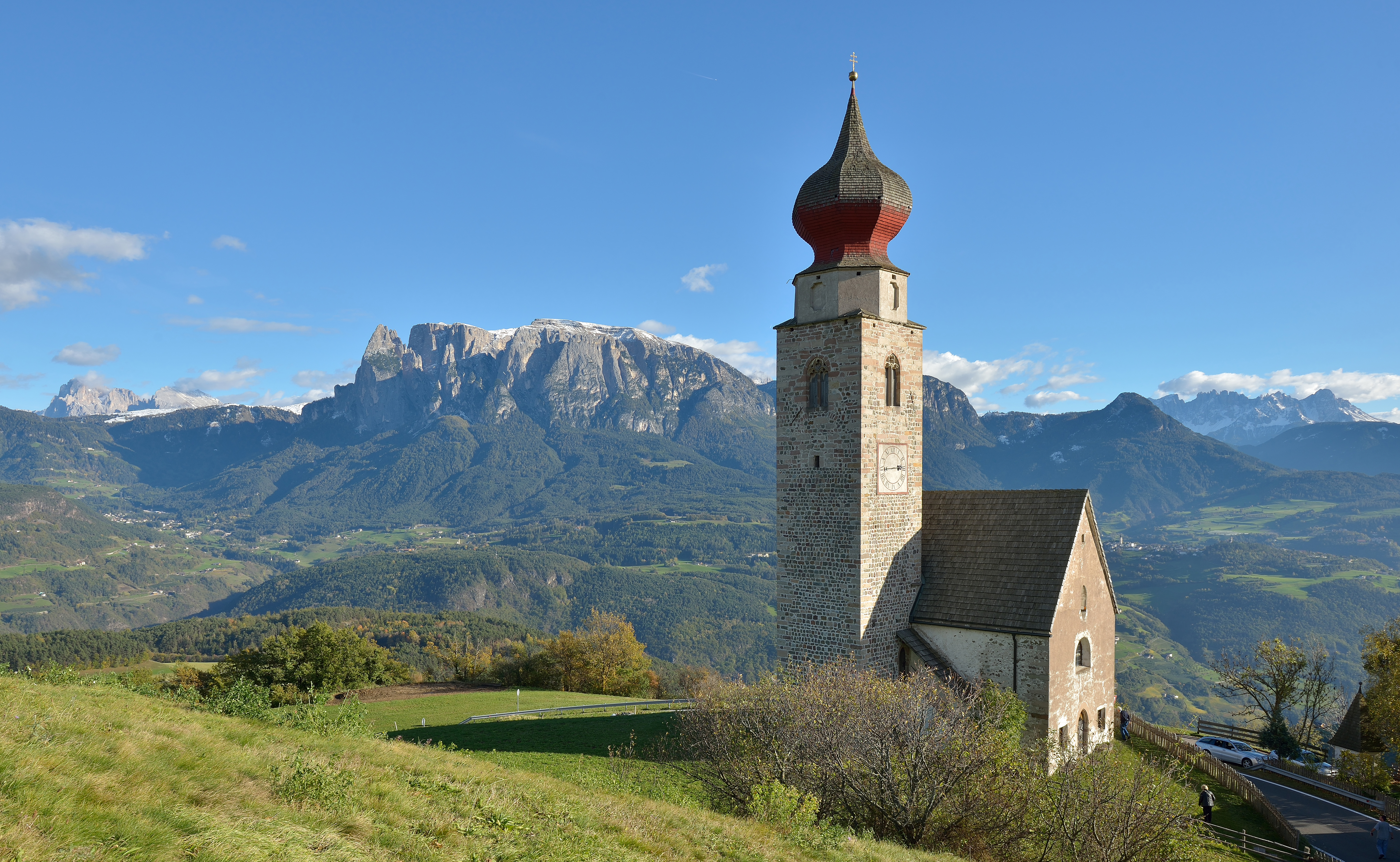 St. Nikolaus in Mittelberg church in Ritten South Tyrol. The Schlern mountain in the background.